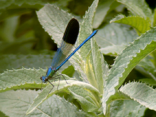 Calopteryx syriaca, male. Location: Israel - Golan.